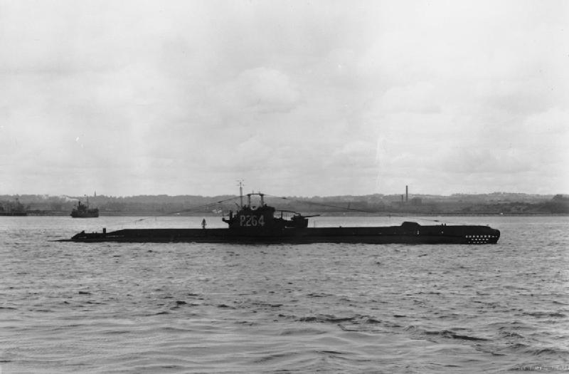 British S class submarine HMSM SPRINGER underway on the Mersey.